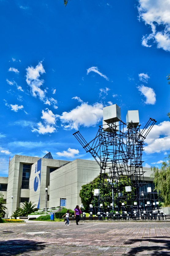 Fotografía de la UAM Xochimilco